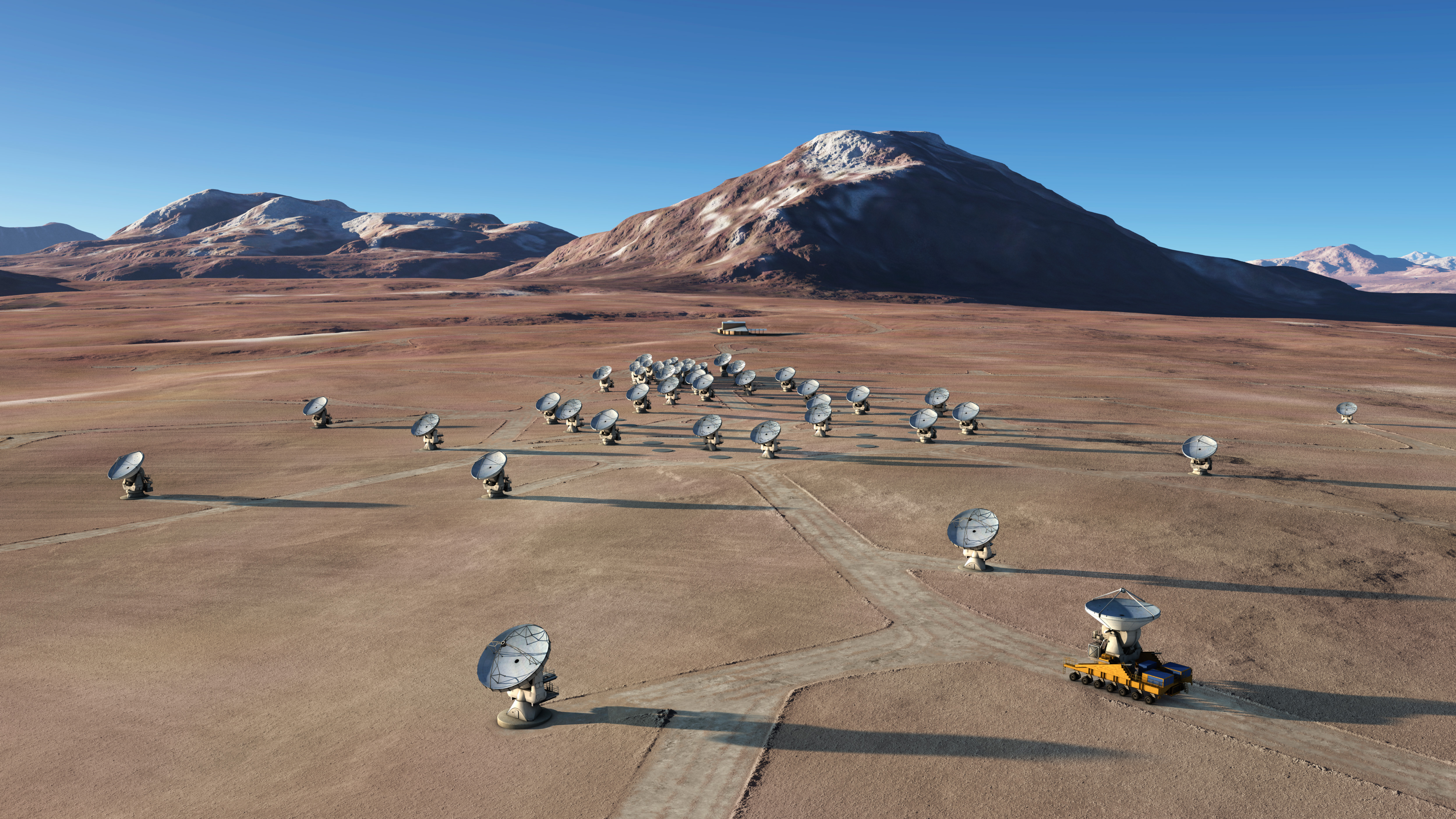 Artist rendering of the Atacama Large Millimeter/submillimeter Array (ALMA), in an extended configuration.